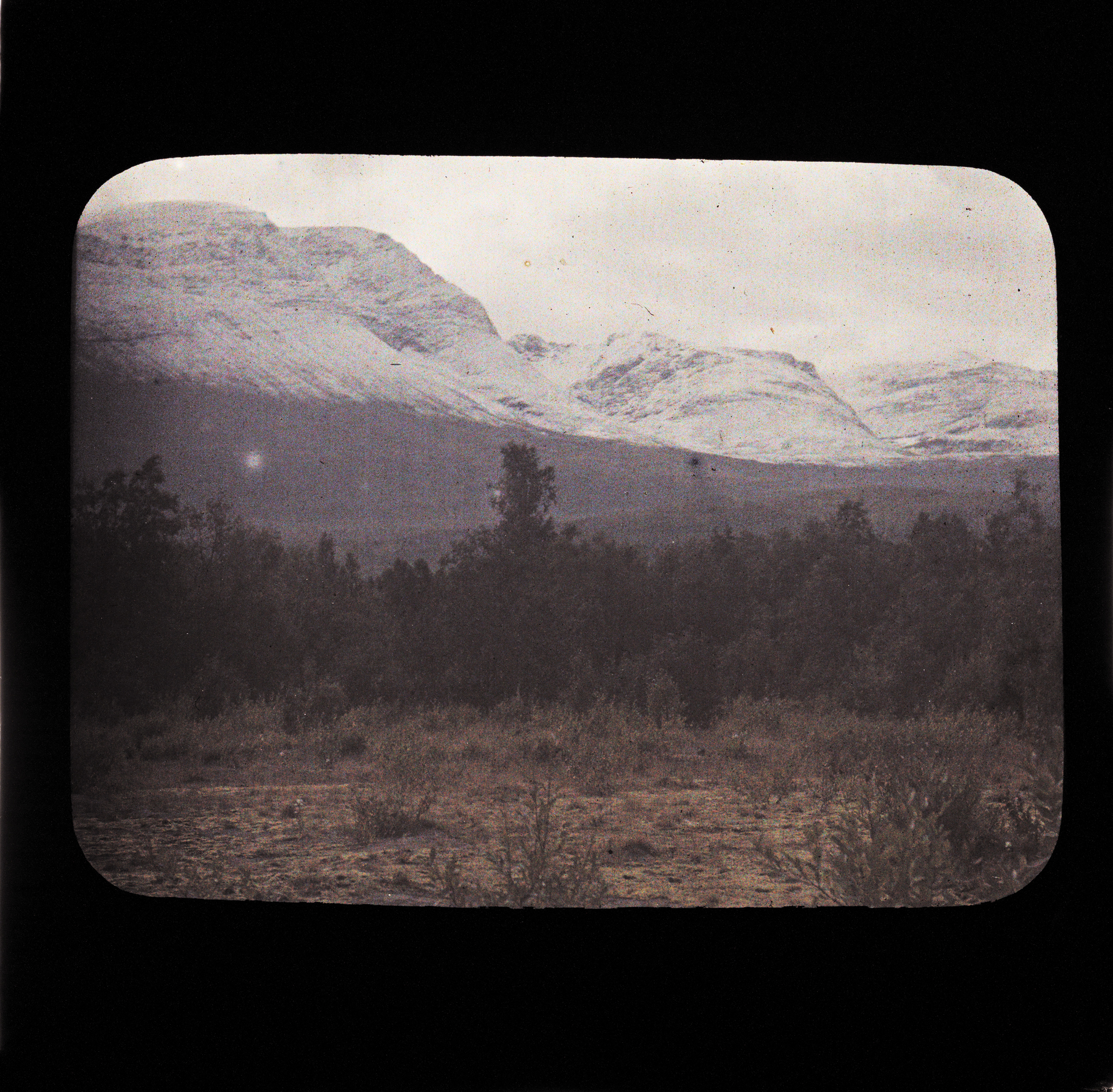 Beskrivelse / Description: Bildet er fra Hanna Resvoll-Holmsens forskningsreise i Troms 1912. Autochrome is an early color photography process. Patented in 1903 by the Lumière brothers in France and first marketed in 1907, it was the principal color photography process in use before the advent of subtractive color film in the mid-1930s (wikipedia). Dato / Date: 1912 Sted / Place: Troms, Målselv Fotograf / Photographer: Hanna Resvoll-Holmsen (1873-1943) Digital kopi av original / Digital copy of original: autochrome, 8x8 glass Eier / Owner Institution: Nasjonalbiblioteket / National Library of Norway Lenke / Link: Bildesignatur / Image Number: bldsa_RH_00041